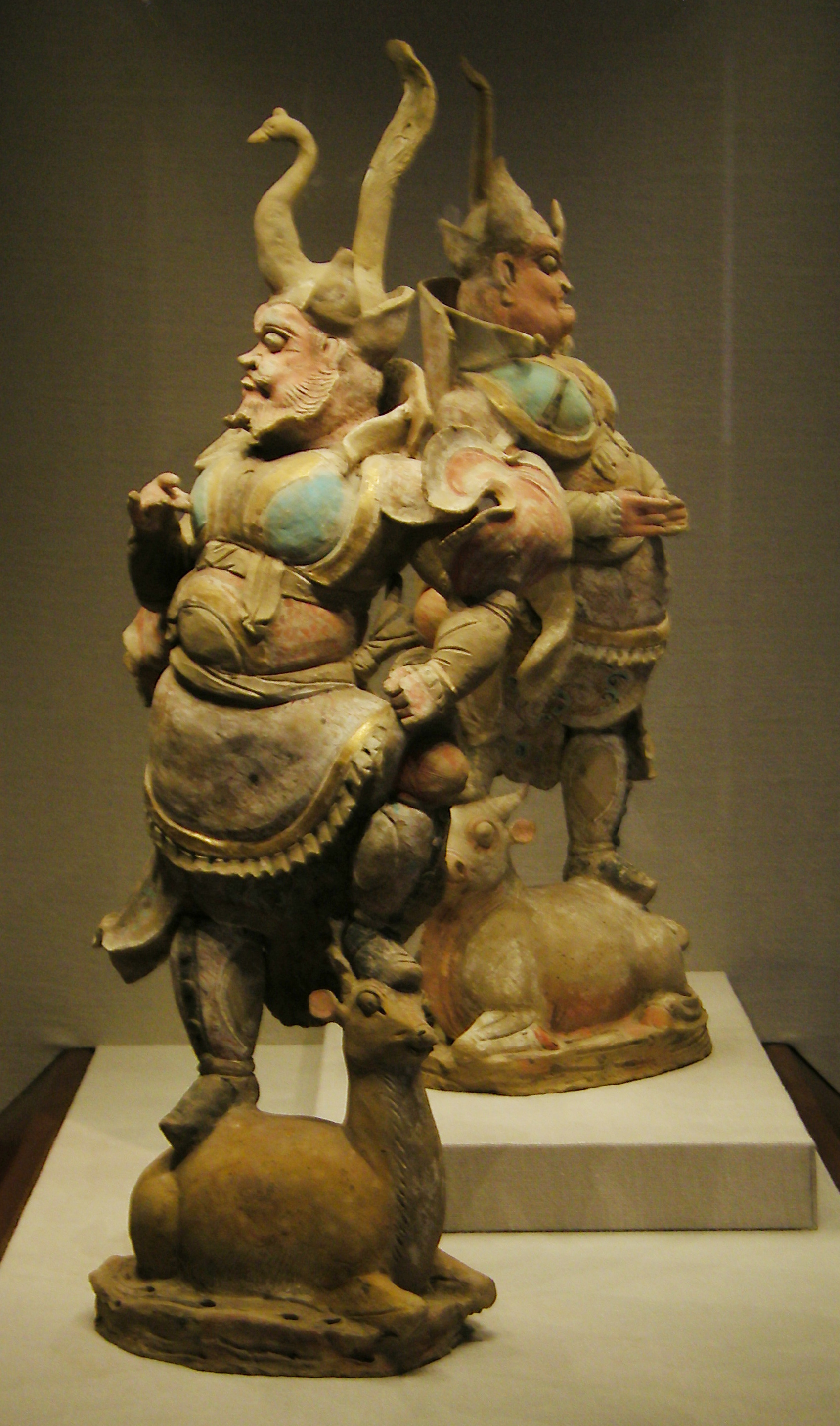 Two Tang Dynasty guardian warriors (Lokapala). Photographed in an exhibit of Chinese funerary art at the Trammell and Margaret Crow Collection of Asian Art, a museum in Dallas, Texas. They were lent for the exhibit by an anonymous collector